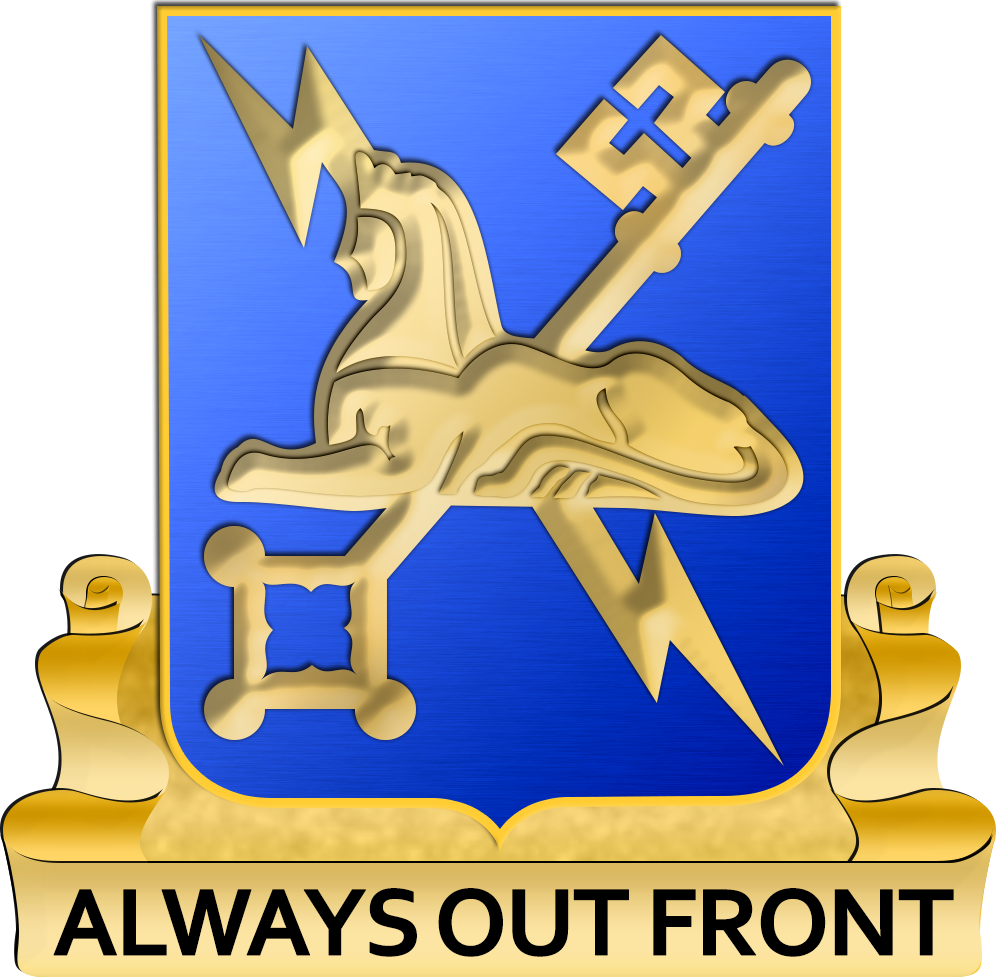 Shield: Azure, a key bend sinisterwise in saltire with a lightning flash argent, in fesspoint overall a sphinx or. Crest: On a wreath of the colors, argent and azure, a torch or enflamed proper in front of two swords in saltire with hilts gold and blades of the first. Motto: ALWAYS OUT FRONT. Symbolism: Oriental blue and silver gray are the colors associated with military intelligence. The key, flash, and sphinx symbolize the three basic categories of intelligence: human, signal, and tactical. The flaming torch between the crossed swords suggests the illumination as provided by intelligence upon the field of battle.